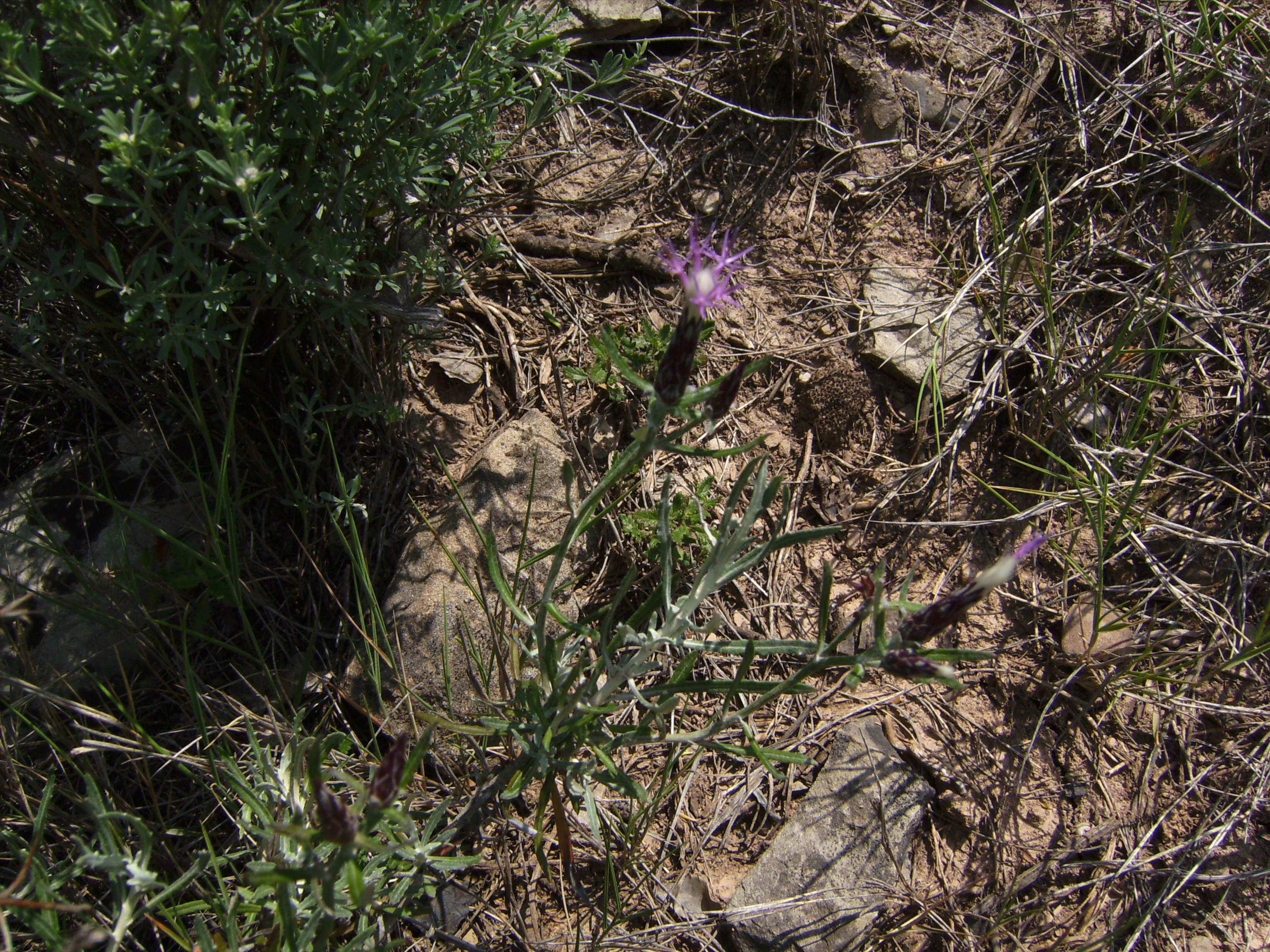 Staehelina dubia, flowers in the wild Castelltallat Catalonia